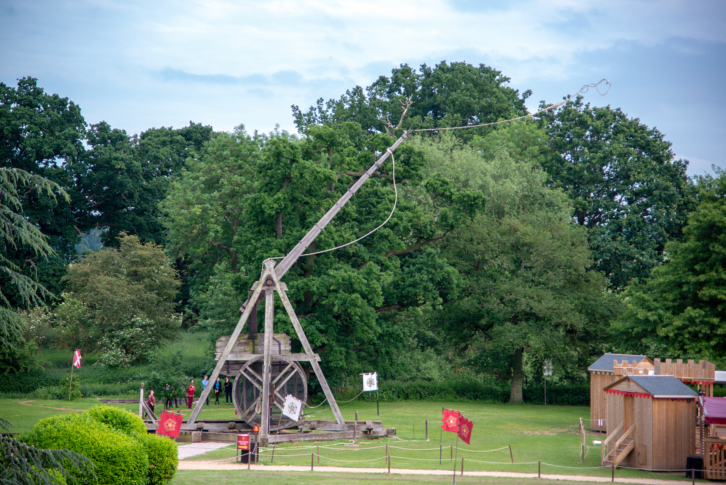 A functioning trebuchet at Warwick castle